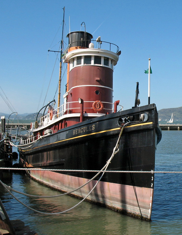 National Register of Historic Places in San Francisco, California. Steam tug "Hercules", San Francisco Maritime National Historic Park, San Francisco, California, USA. Photographed 2008-03-08 by Mike Hofmann from Hyde Street Pier walkway. The "Hercules" was built in 1907.